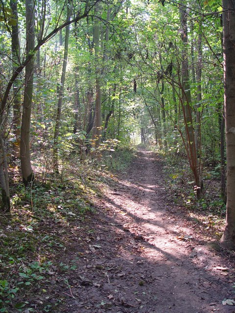 The High Hunsley Circuit descends towards Elloughton Dale in the East Riding of Yorkshire, England.